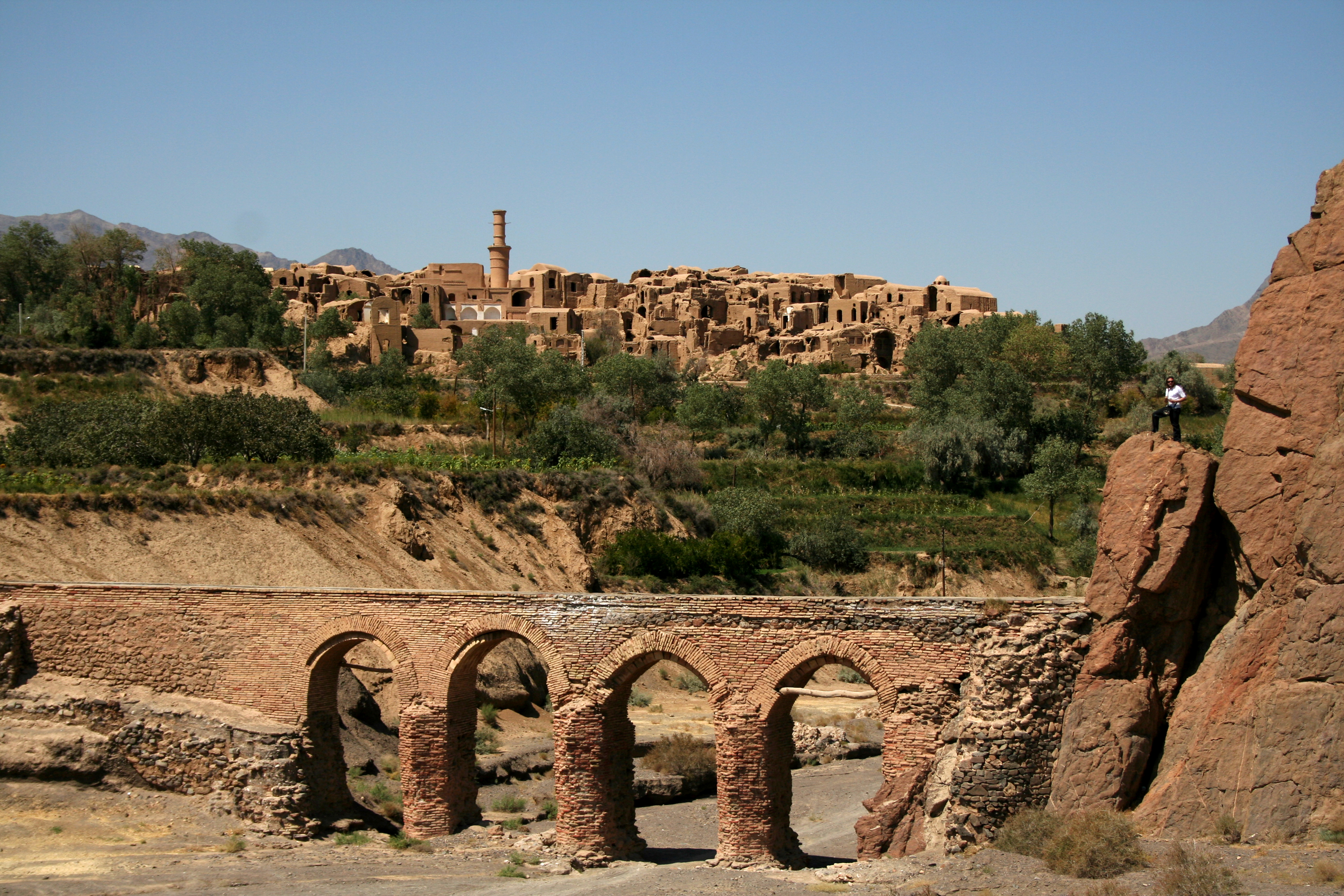 Parts of the village are believed to be more than 1000 years old, and it's been occupied in some form for more than 4000 years now. Located in central Iran, near Yazd.